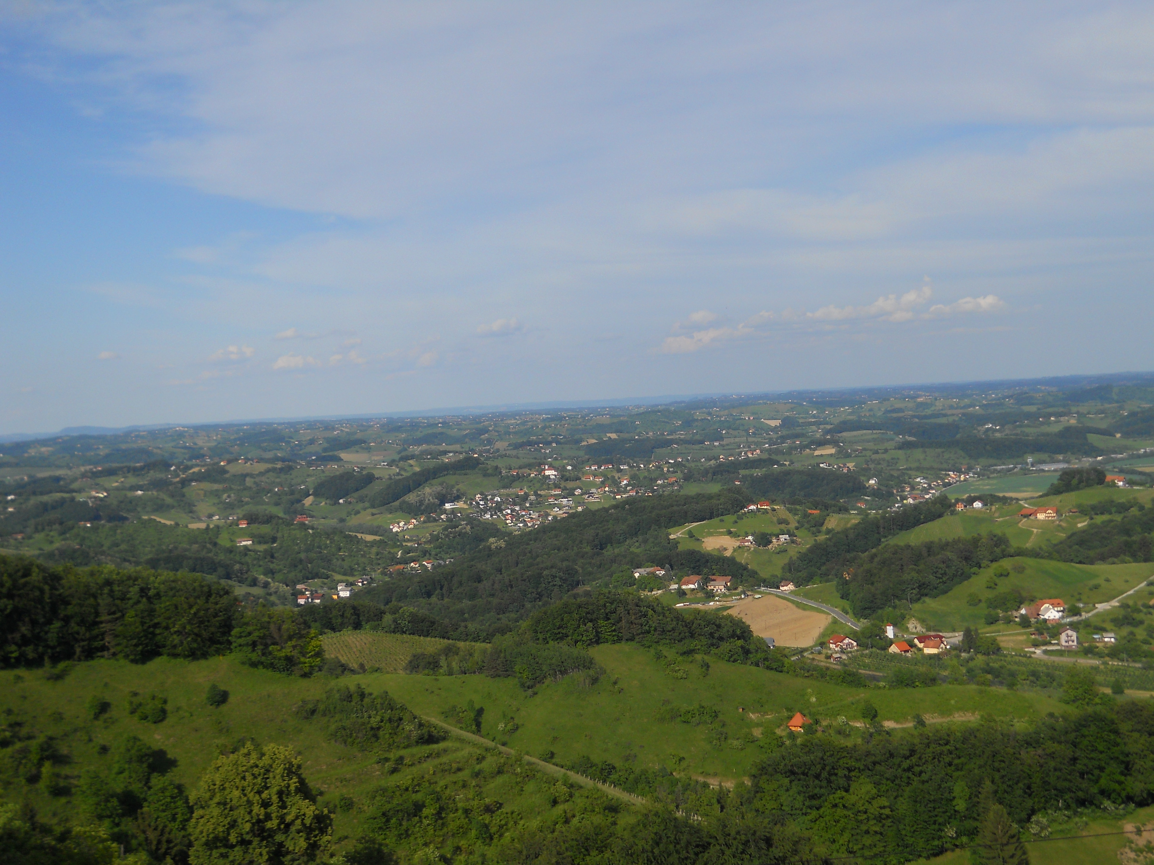 Slovene Hills from Sveti Urban Hill (Municipality of Maribor, northeastern Slovenia).